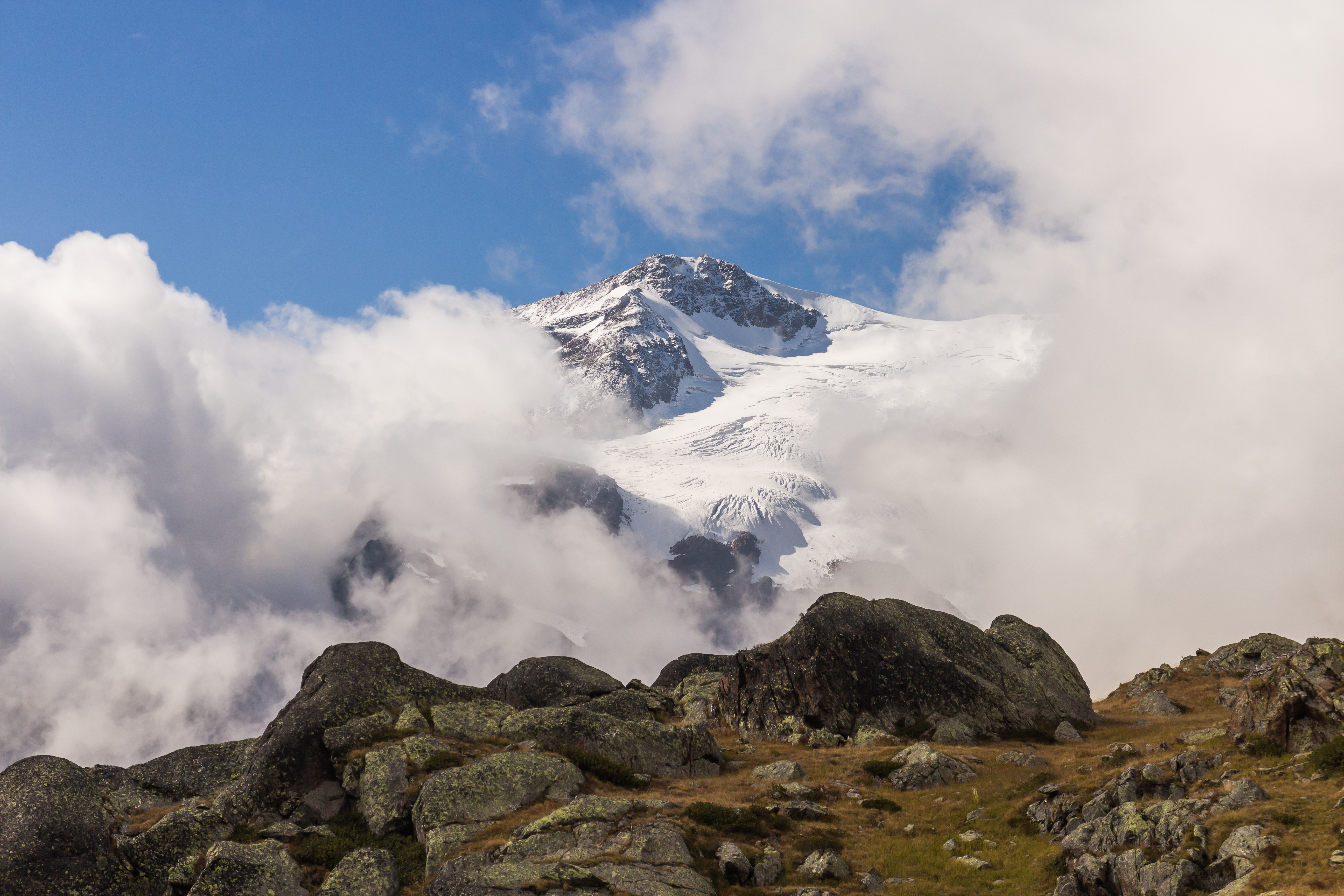 Mountain hiking of parking in power station Malga Mare to Lago Lungo (2,553 metres (8,376 ft). Views of Monte Cevedale (3,769 metres (12,365 ft).